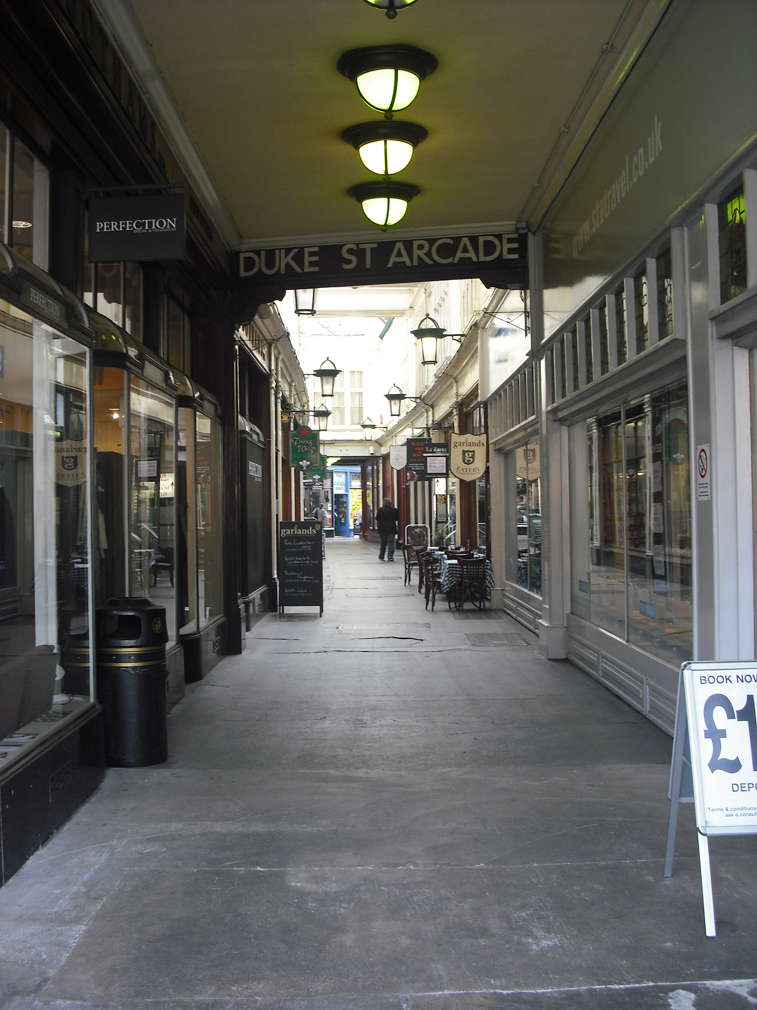 Duke Street Arcade in Cardiff opposite Cardiff Castle